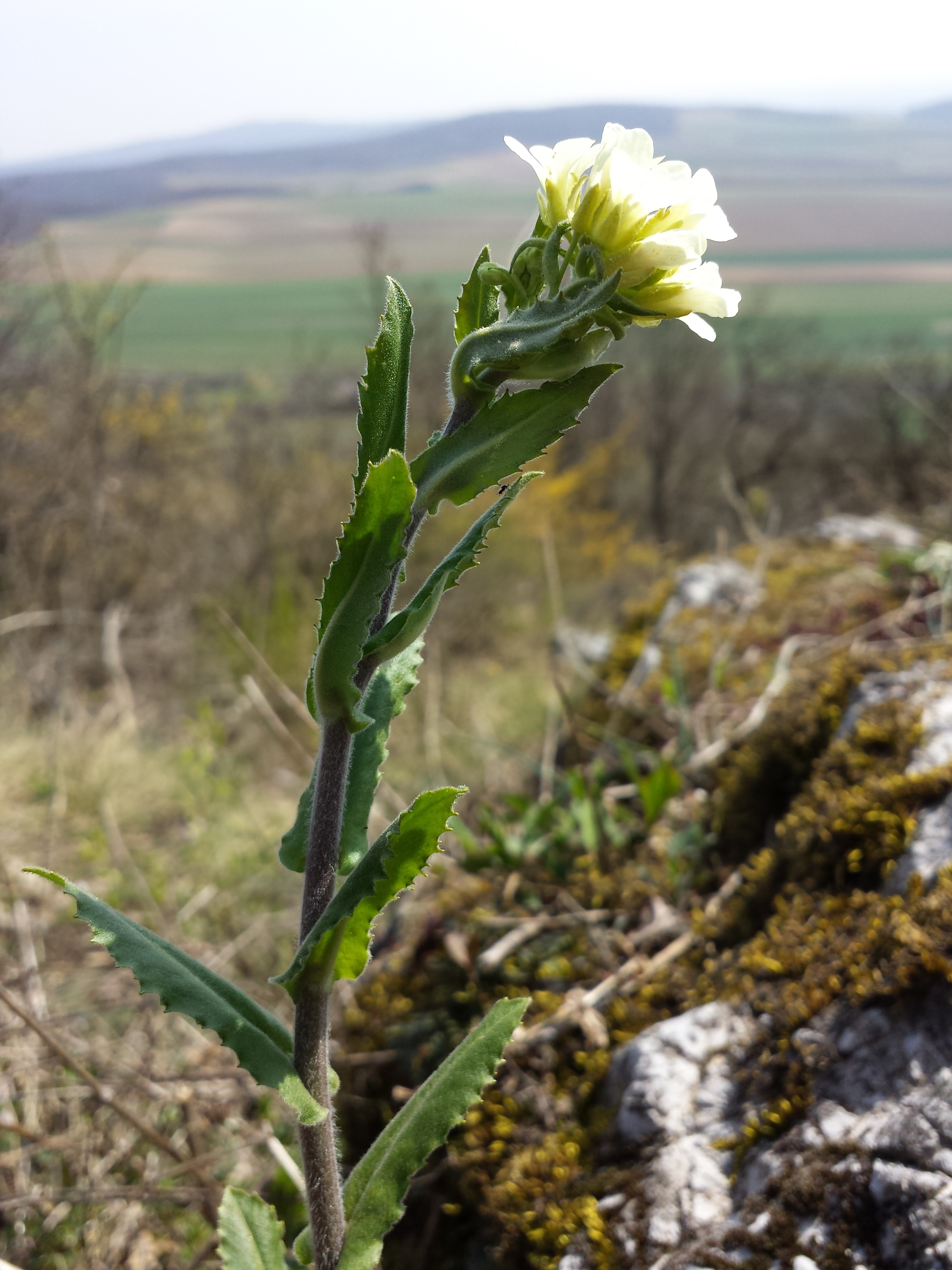 Habitus Taxonym: Pseudoturritis turrita ss Fischer et al. EfÖLS 2008 ISBN 978-3-85474-187-9 Location: Hexenberg (Hundsheimer Berge), district Bruck an der Leitha, Lower Austria - ca. 400 m a.s.l. Habitat: rock steppe